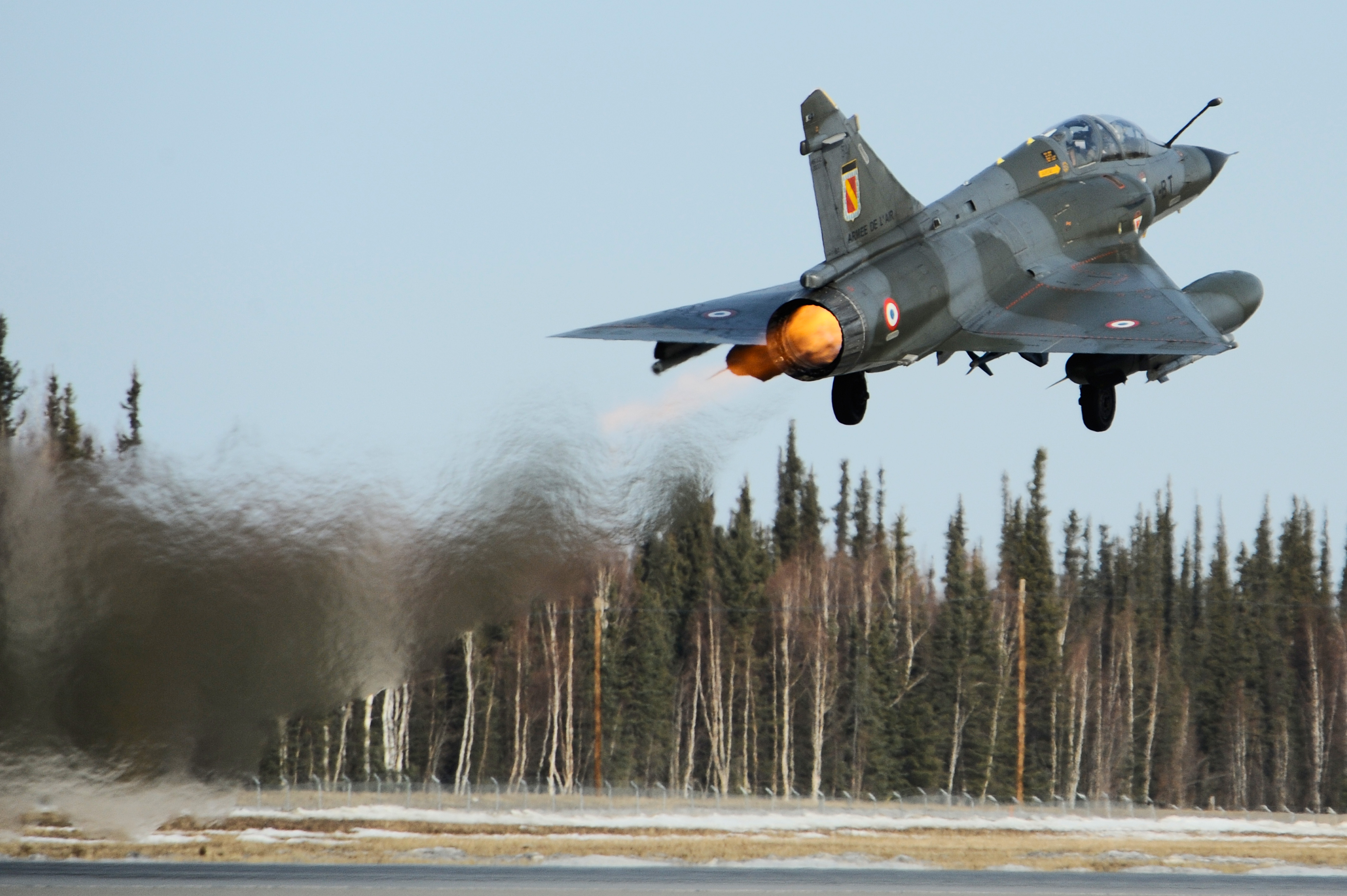 A French air force Dassault M2000 Mirage aircraft takes off from Eielson Air Force Base, Alaska, April 21, 2009, for the Joint Pacific Alaska Range Complex during exercise Red Flag-Alaska 09-2. The exercise provides joint offensive counter-air, interdiction, close-air support and large force employment training in a simulated combat environment and includes participants from the U.S. Air Force, France and NATO